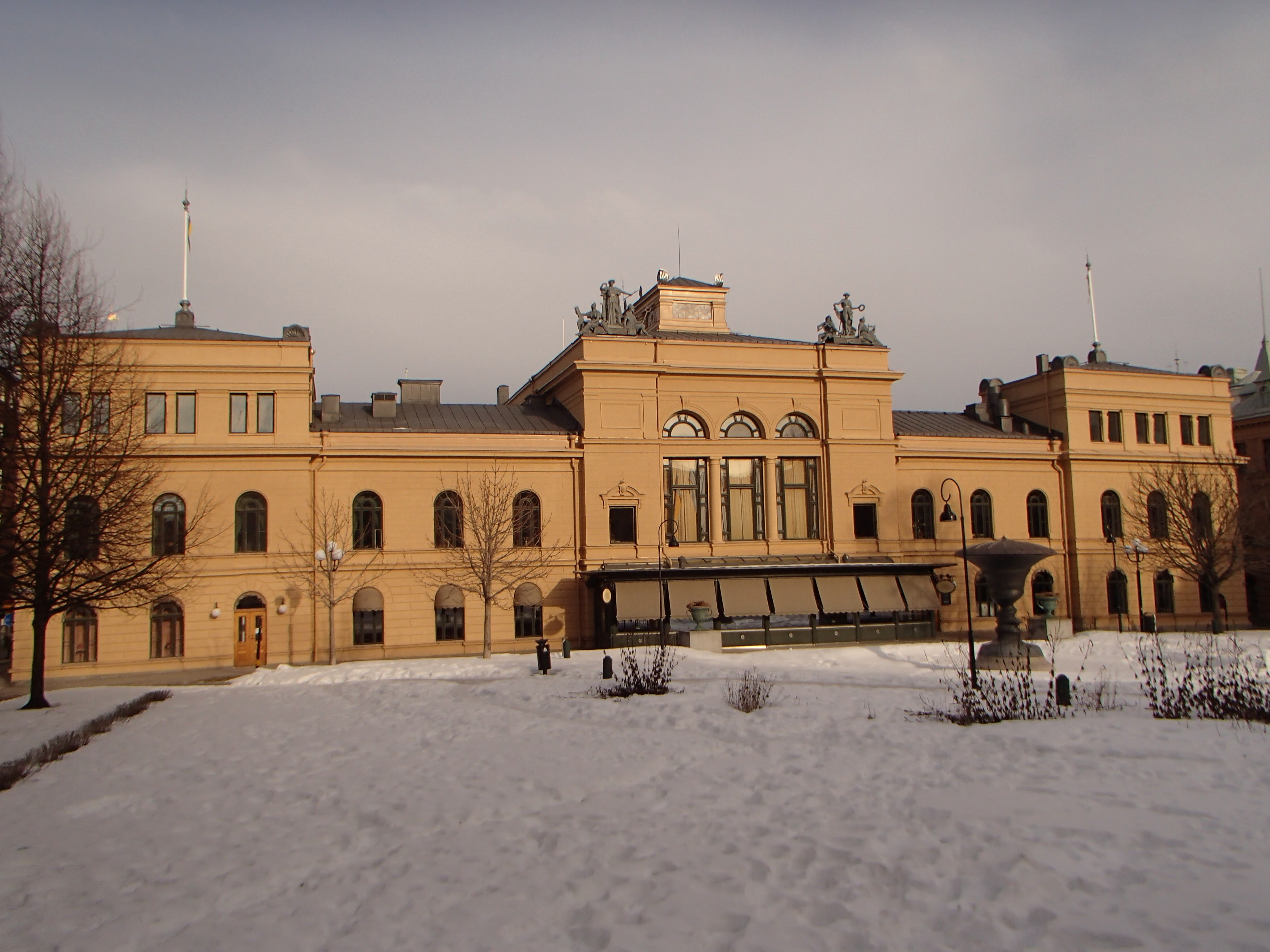 The city hall or "Stadshuset" at Rådhusgatan 22 in Sundsvall